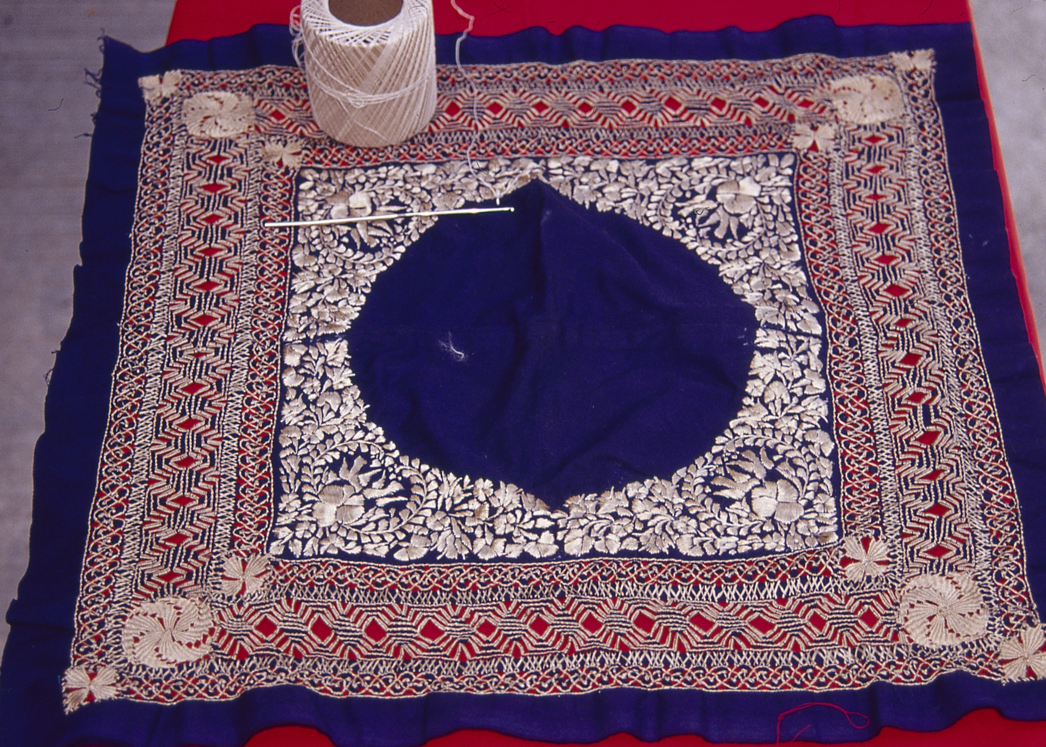 Traditional embroidery Virginia Sanchez de Cornelio of Oaxaca